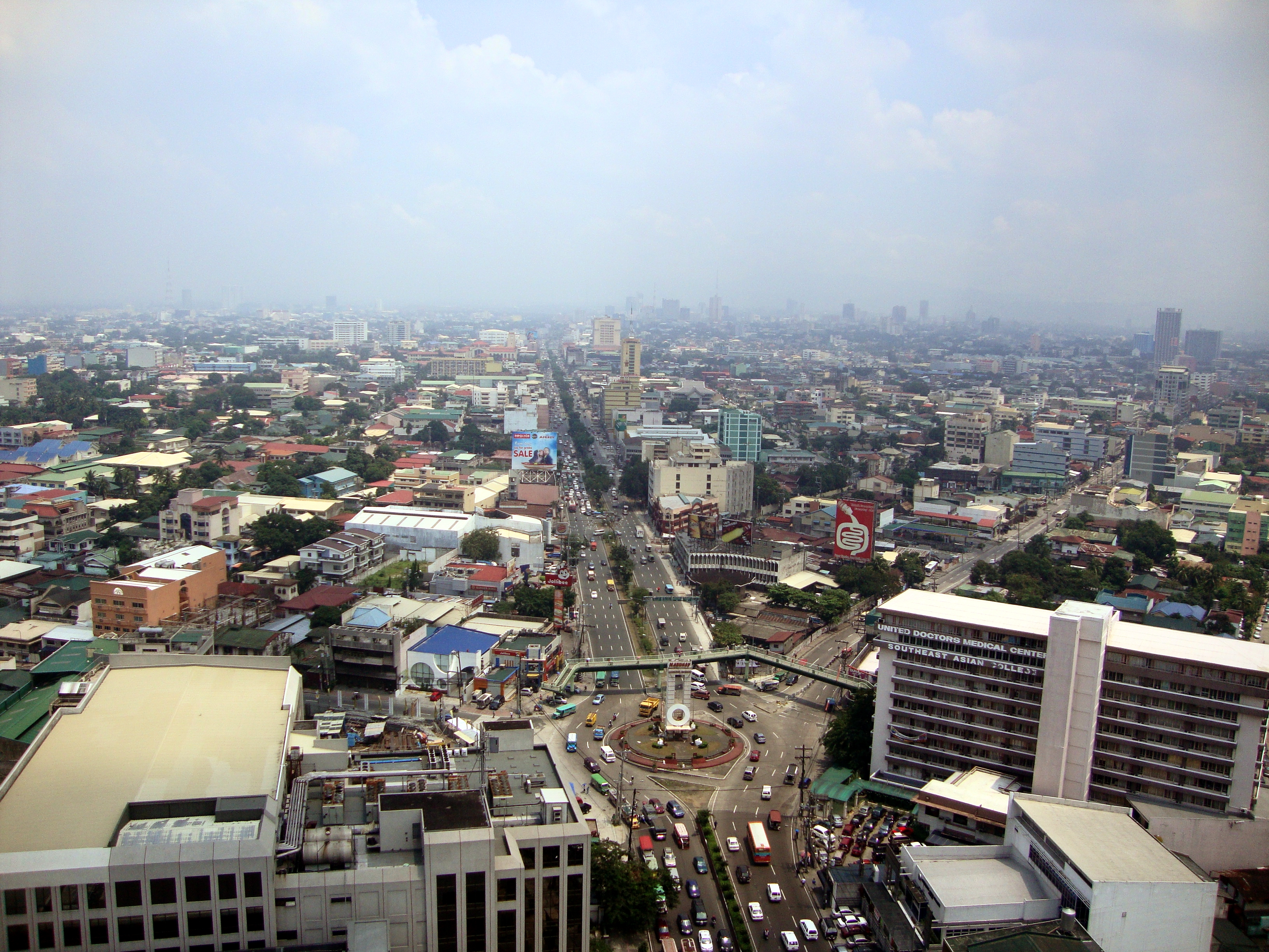 An aerial shot of Welcome Rotonda in Quezon Avenue, Quezon City.